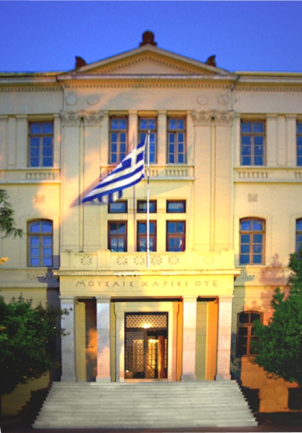 The main entrance of the Old Philosophical School of the Aristotelion University of Thessaloniki. Architect Poselli Vitaliano (1838-1918)